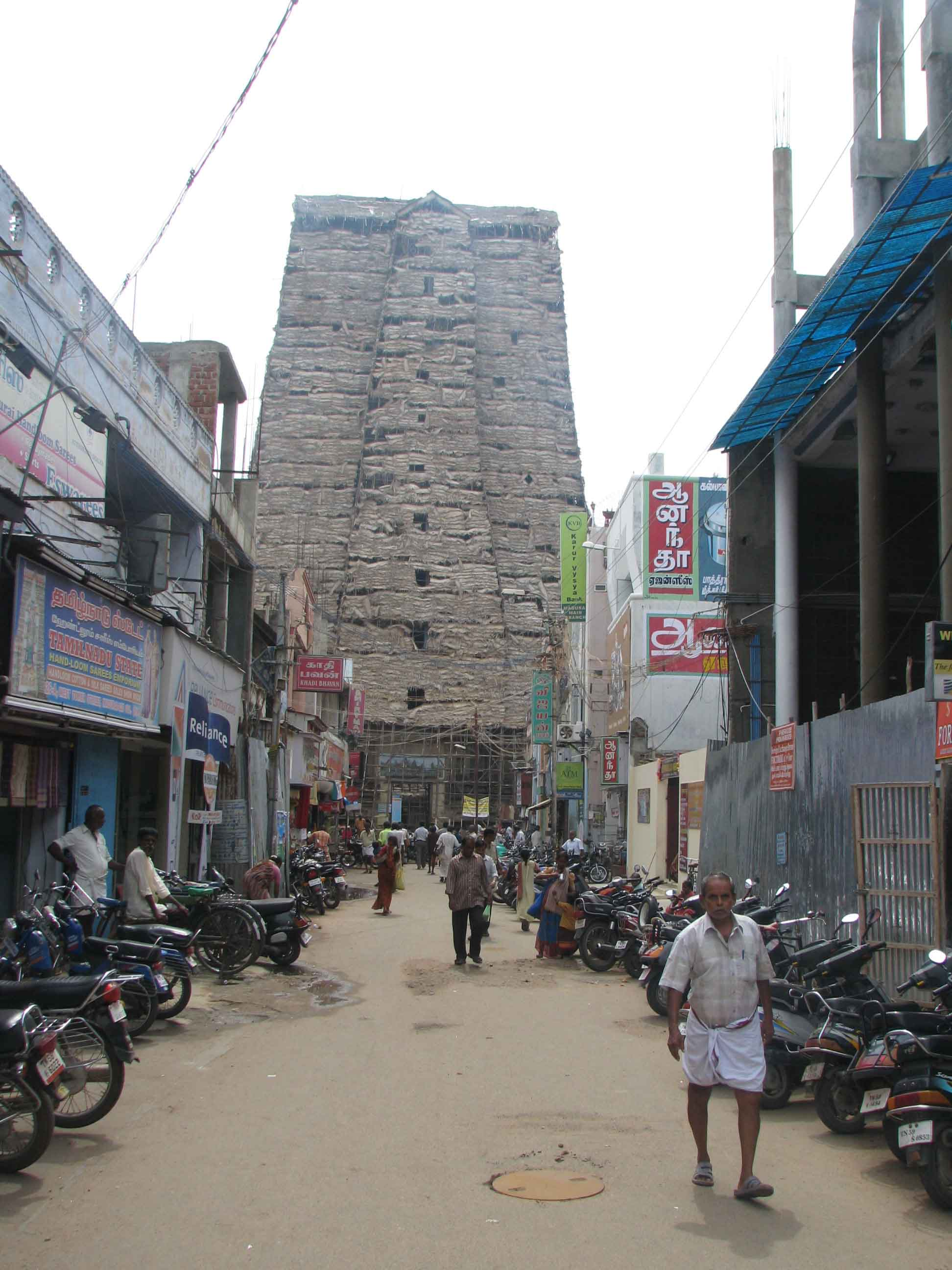 Gopurams of Madurai Meenakshi temple